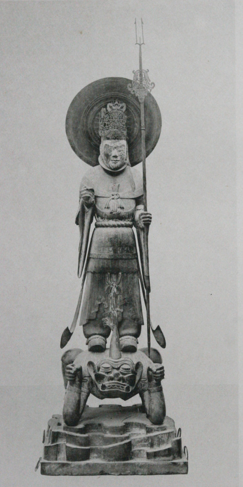 ZojoTen_(viruudhaka) one of Four Kings gauading Buddha. Camphor wood, colored, Body Height 135cm, 7th century, KONDO of Horyuji, Ikaruga, Japan